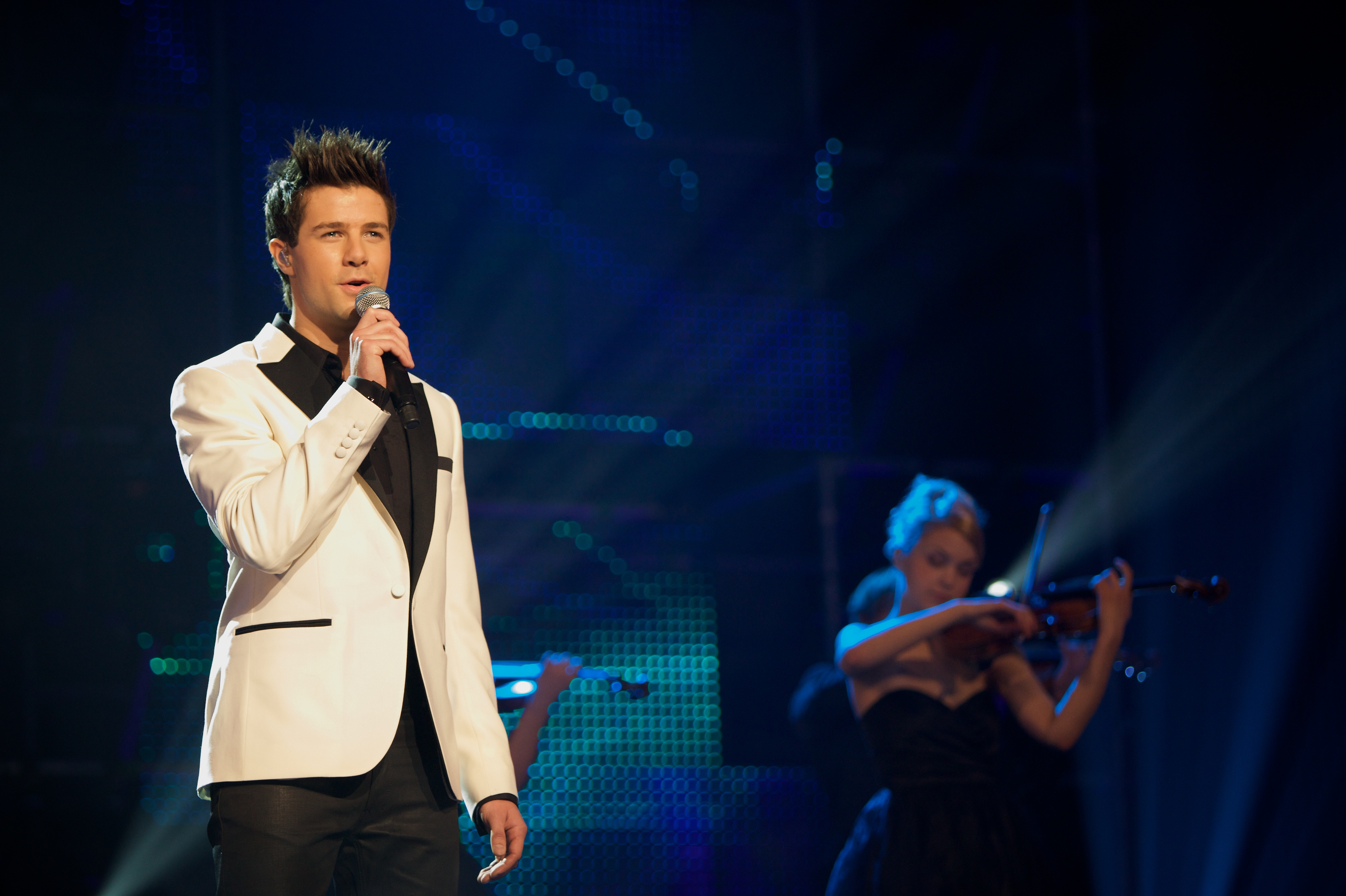 Didrik Solli-Tangen at the third Melodi Grand Prix semi-final in Skien, Norway. MGP is the Norwegian national selection for the Eurovision Song Contest.